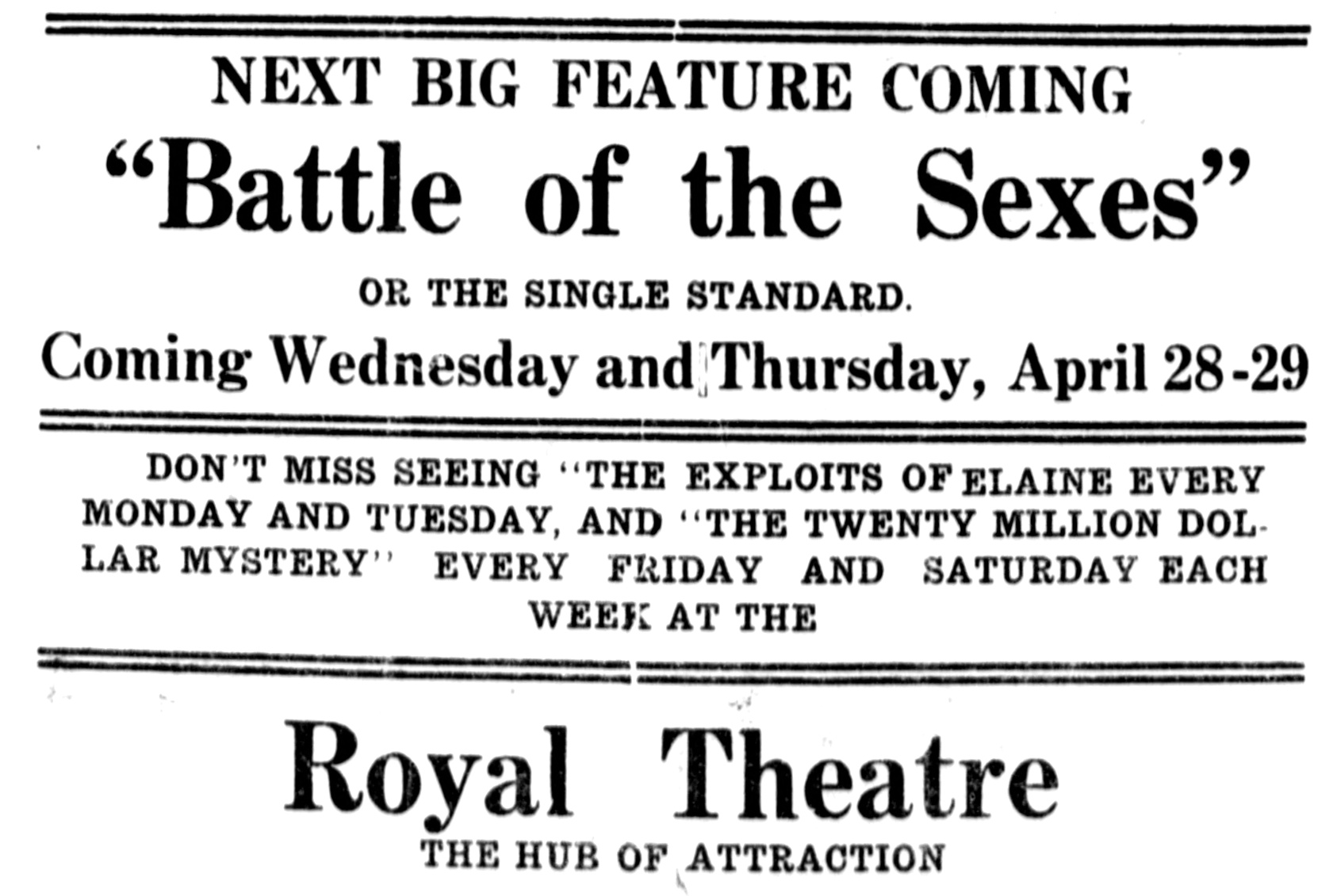 The Battle of the Sexes is a 1914 American drama film directed by D. W. Griffith for the Majestic Motion Picture Company. The full 50-minute feature is now considered a lost film, as no complete prints of the film are known to exist. This is a newspaper ad from the time of the film.